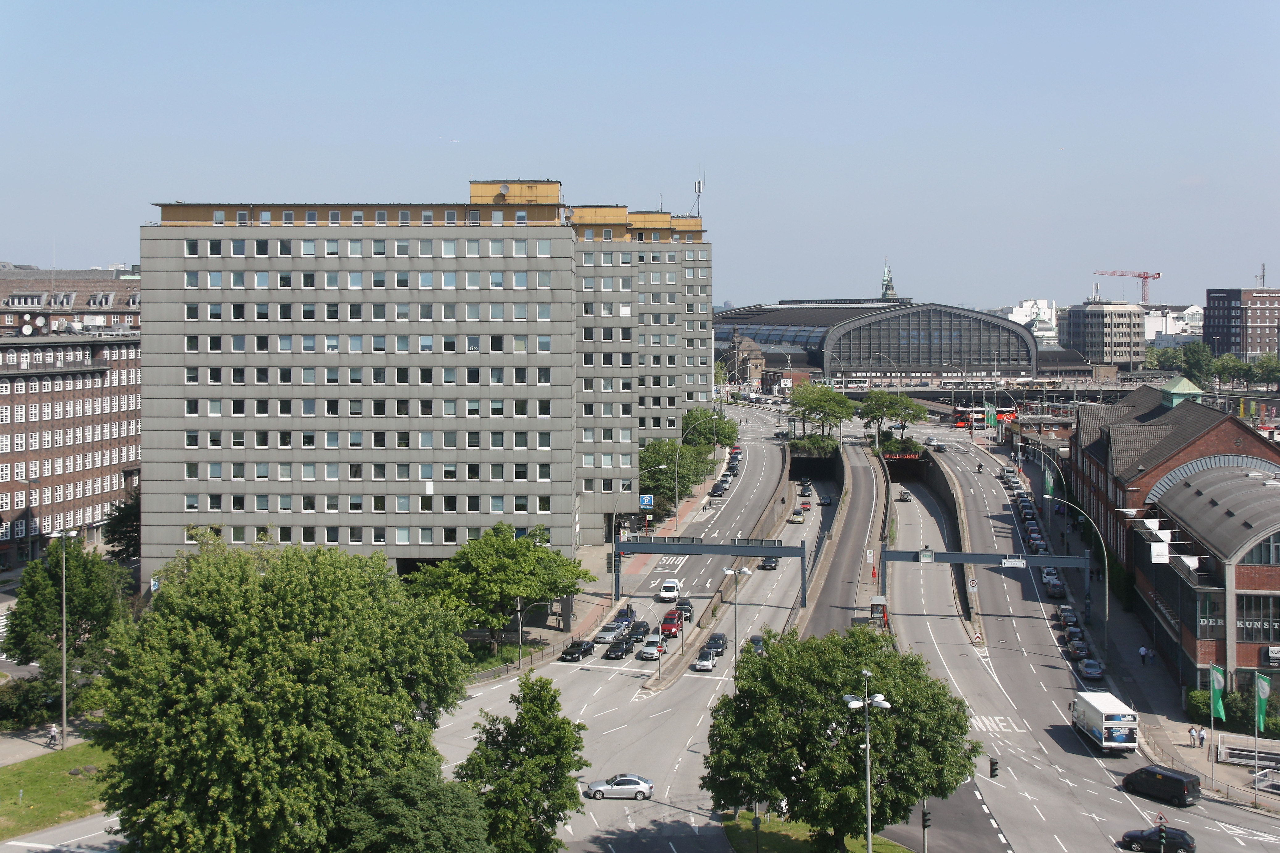 Hamburg, Office Buildings "City Hof", Wallringtunnel and Central station